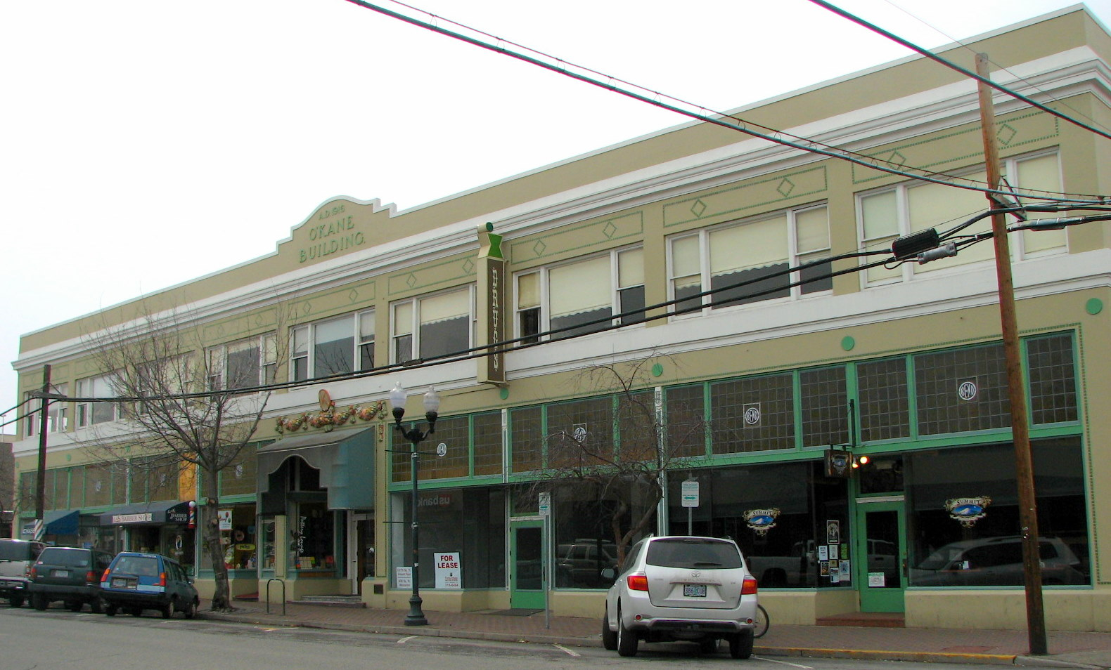 The historic O'Kane Building (built 1916), located at 115 Northwest Oregon Avenue in Bend, Oregon, United States, is listed on the US National Register of Historic Places (NRHP).